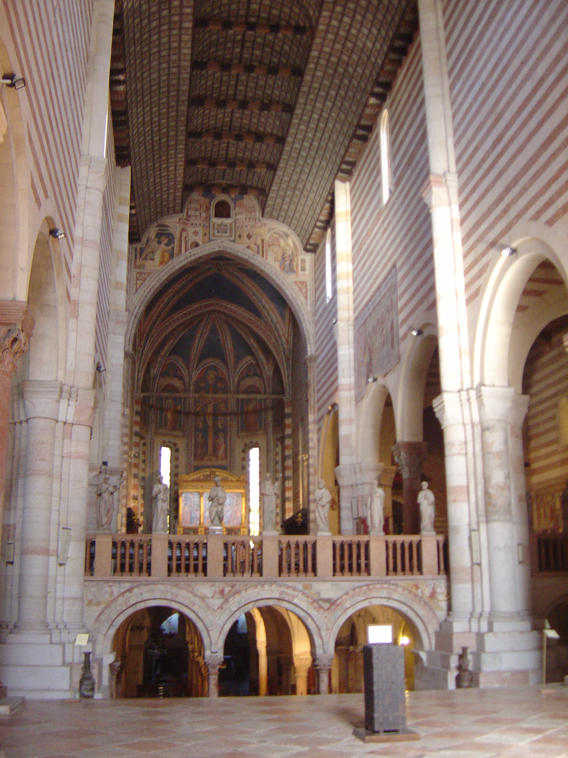 San Zeno basilica, Verona, Italy